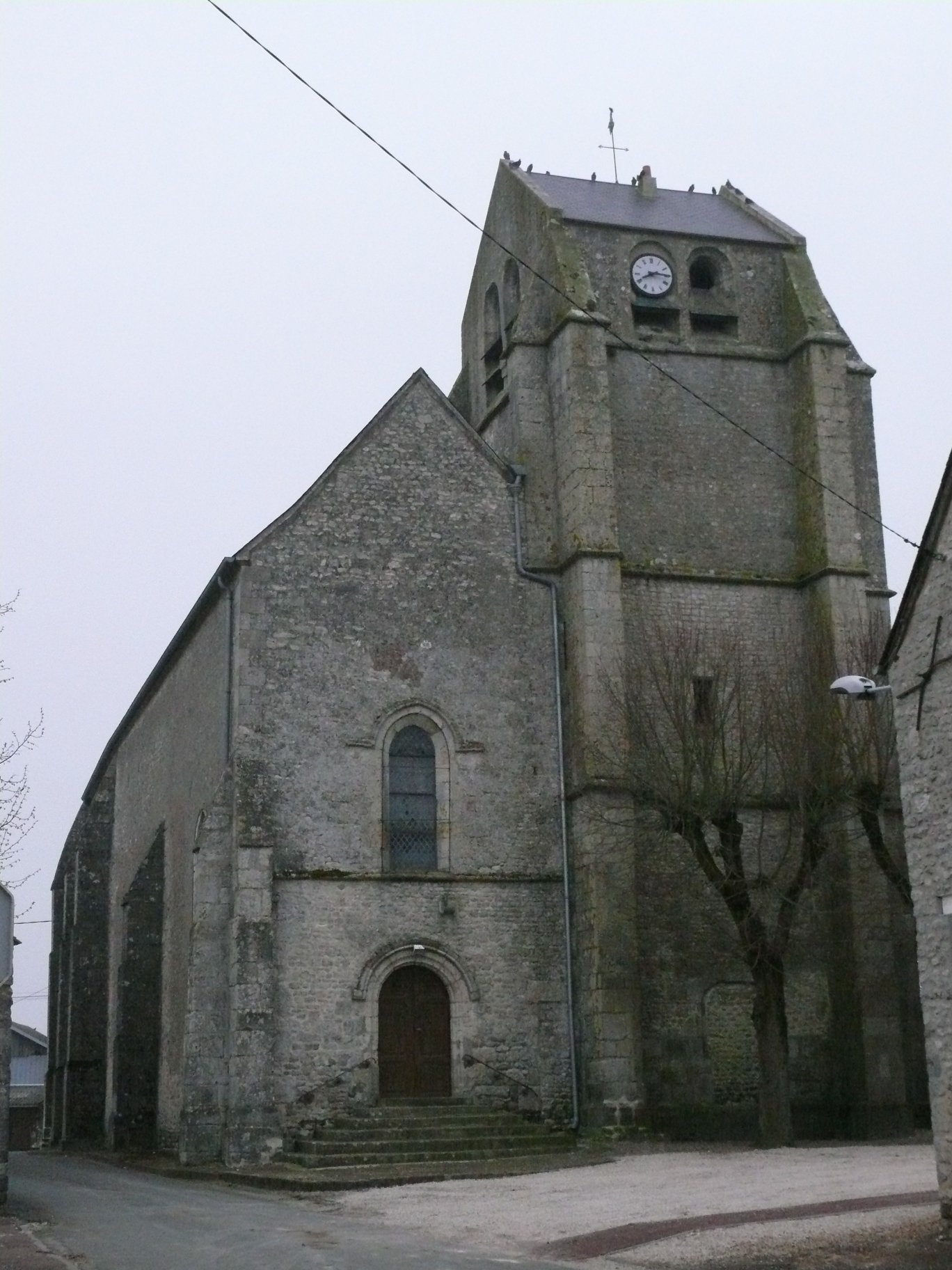 Saint-Julien's church of Neuvy-en-Beauce (Eure-et-Loir, Centre, France).